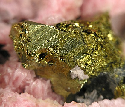 Rhodochrosite, Stilbite, Chalcopyrite, Sphalerite Locality: Starnitsa deposit, Davidkovo ore field, Rhodope Mts, Smolyan Oblast, Bulgaria (Locality at ) Size: 9.3 x 6.6 x 2.5 cm. The various ore bodies in southern Bulgaria have produced a lot of memorable sulfide and carbonate specimens, and even though the Rhodochrosite from this area is not world-class, it is the only locality that I know of where Rhodochrosite occurs with stilbite. This piece would be a good association specimen without the Stilbite crystals, but the color combination of pink Rhodochrosite, with white Stiblite, golden Chalcopyrite and underlain brownish Sphalerite makes this a very attractive and unusual piece. The Stilbite crystals are admittedly small, but the fact that they are sitting atop Rhodochrosite makes it all the more enticing. Ex. Brian Kosnar Collection.